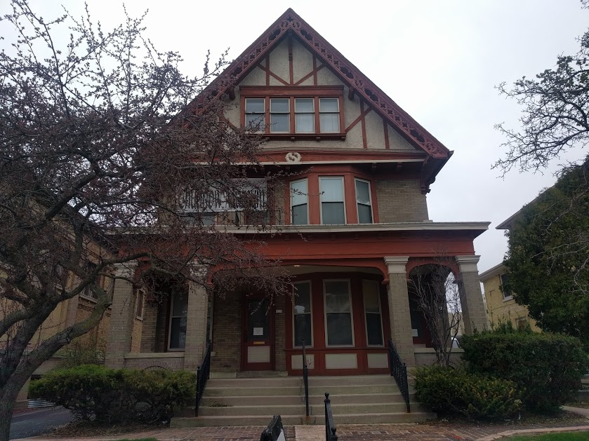 Photograph of the Chudnow Museum of Yesteryear in Milwaukee, Wisconsin, USA.